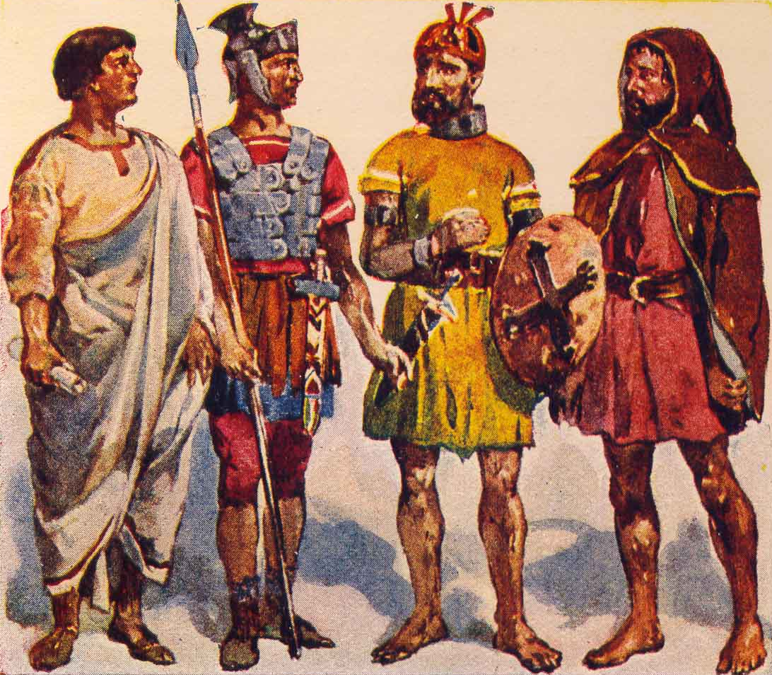 "Romans and Lusitanians", by Roque Gameiro, in Quadros da História de Portugal ("Pictures of the History of Portugal", 1917).